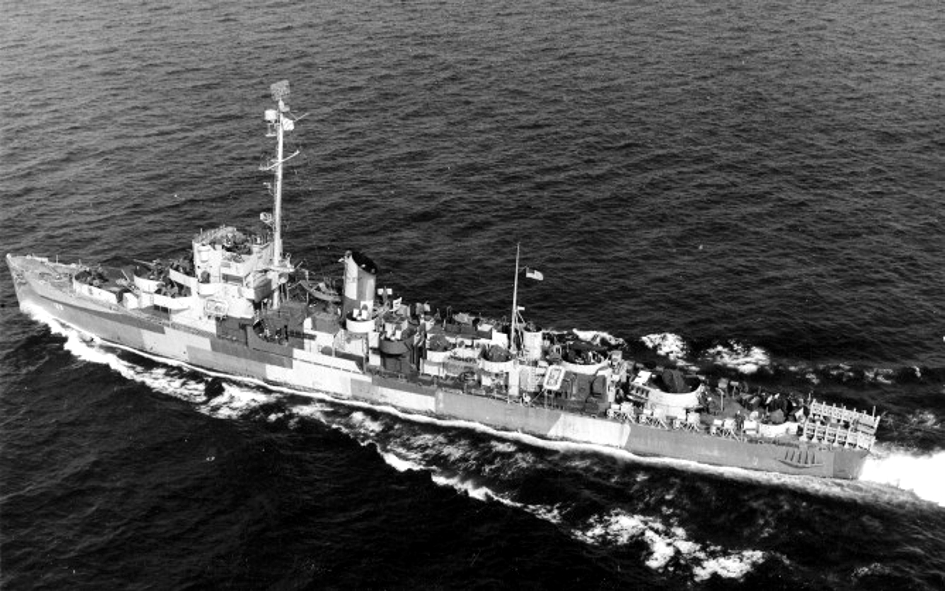 The U.S. Navy destroyer escort USS Edsall (DE-129) underway near Ambrose Light just outside New York Harbor (USA) on 25 February 1945. The photo was taken by an blimp from squadron ZP-12. Edsall is painted in Camouflage Measure 32, Design 3D.